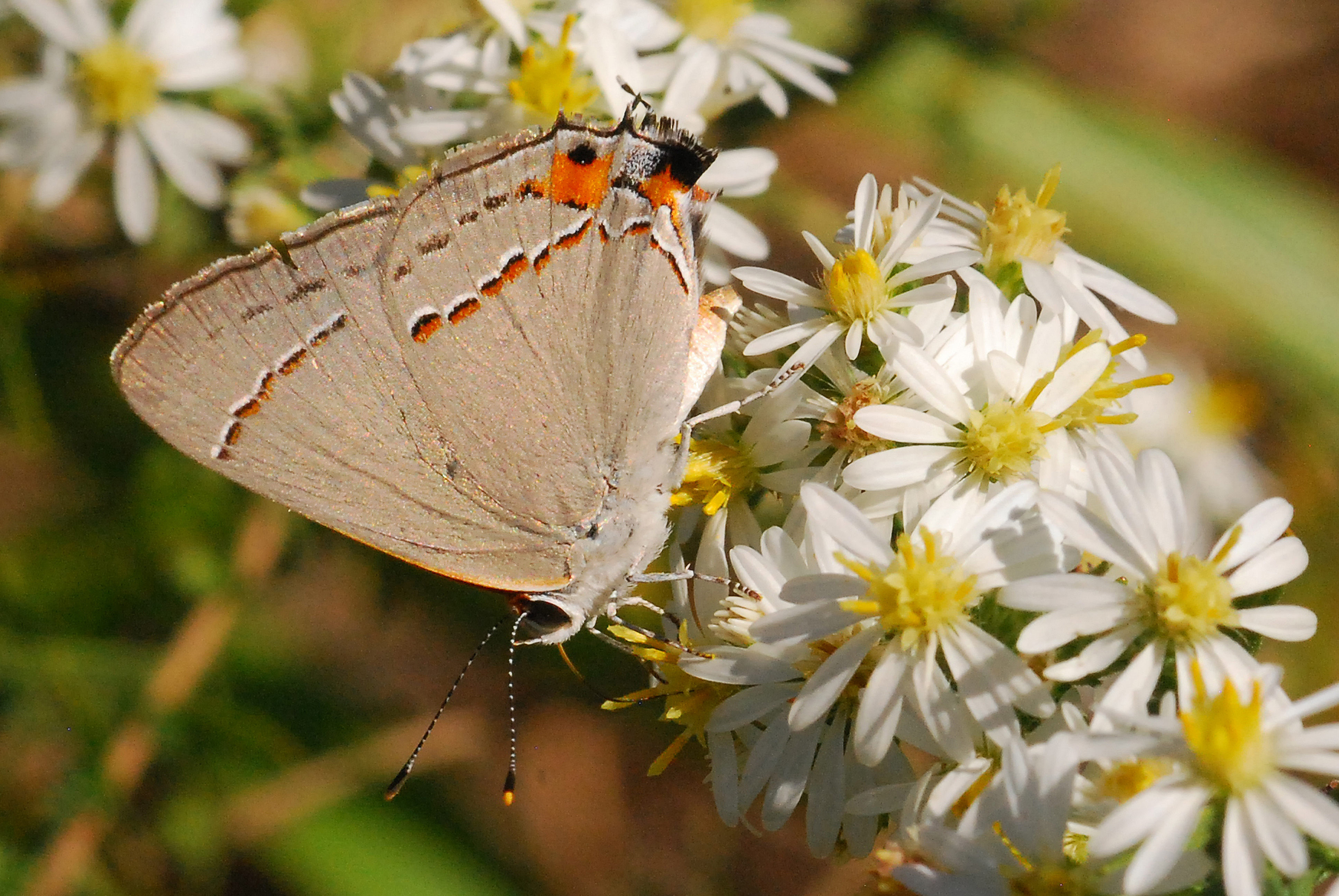 Strymon melinus, Gray Hairstreak, Texas, USA. Alan Cassidy photo.